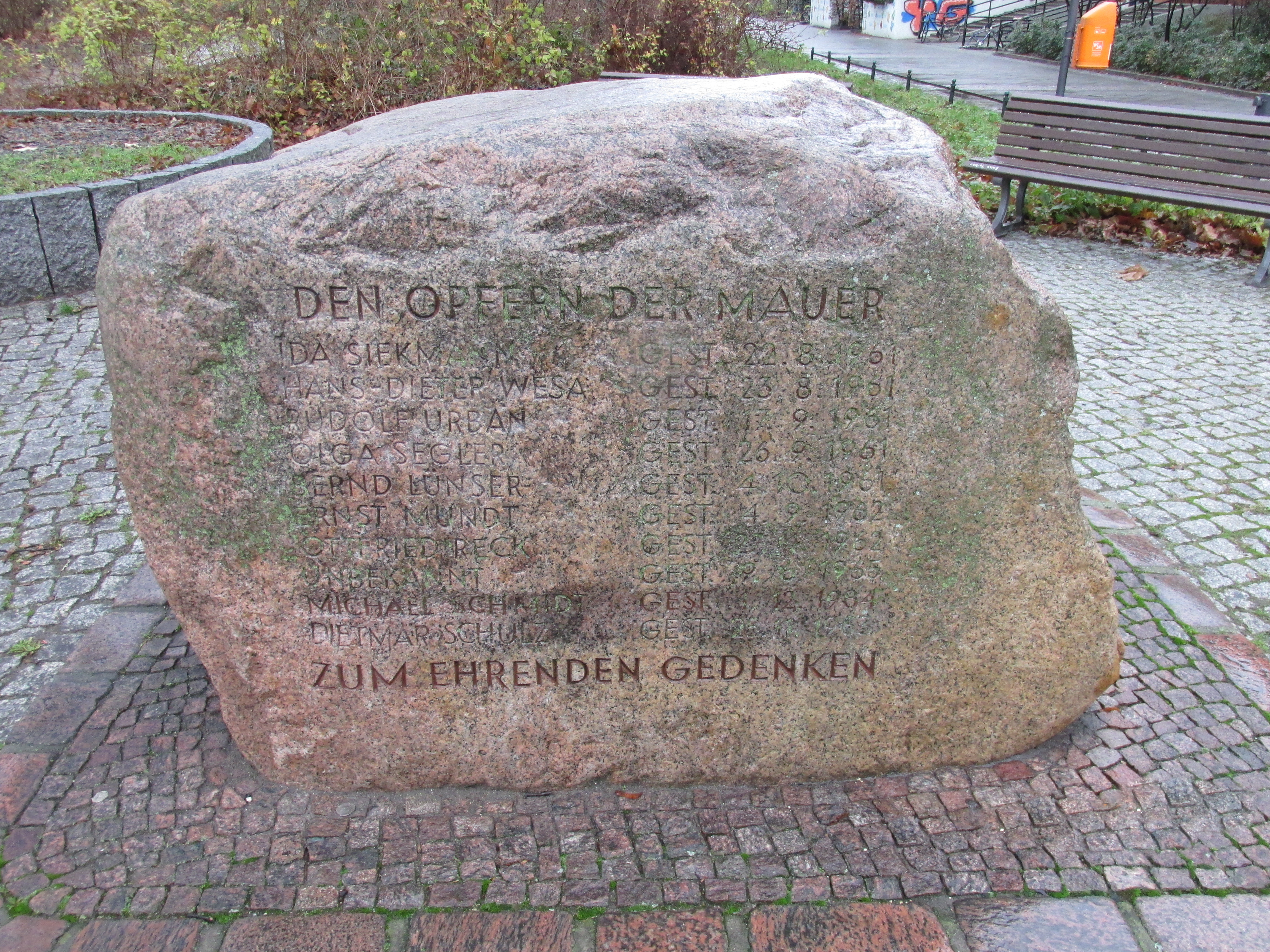 Memorial stone to Bernauer Straße victims of the Berlin wall (closeup).